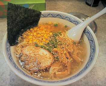 ramen with salt taste